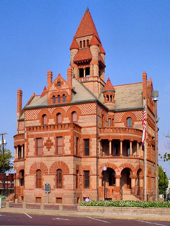 Image of Hopkins County Courthouse in Sulphur Springs, Texas, United States. Recorded Texas Historic Landmark - 1975